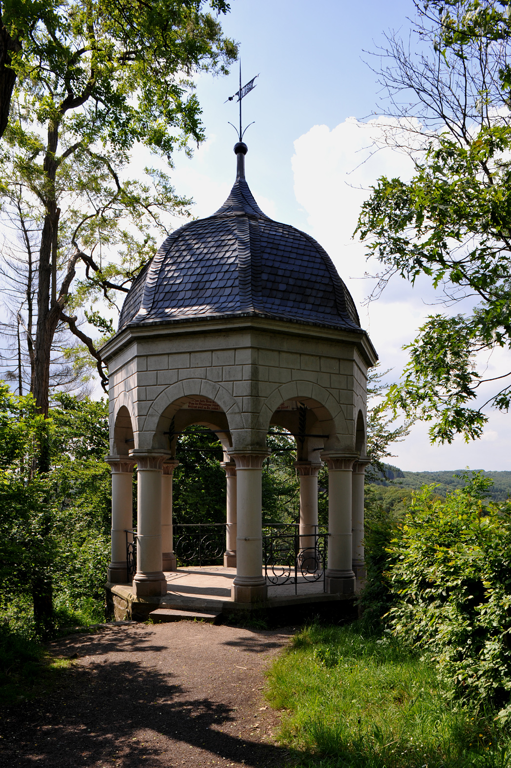 Pavilion Diederichstempel near Burg (Solingen); North Rhine-Westphalia, Germany.